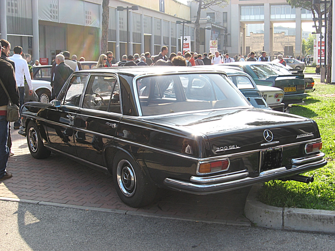 Subject: Mercedes-Benz 300 SEL (W108) Date:October 26th, 2008 Event: Auto e Moto d'Epoca 2008 Place/Country: Padova, Italy I release all rights in the public domain.